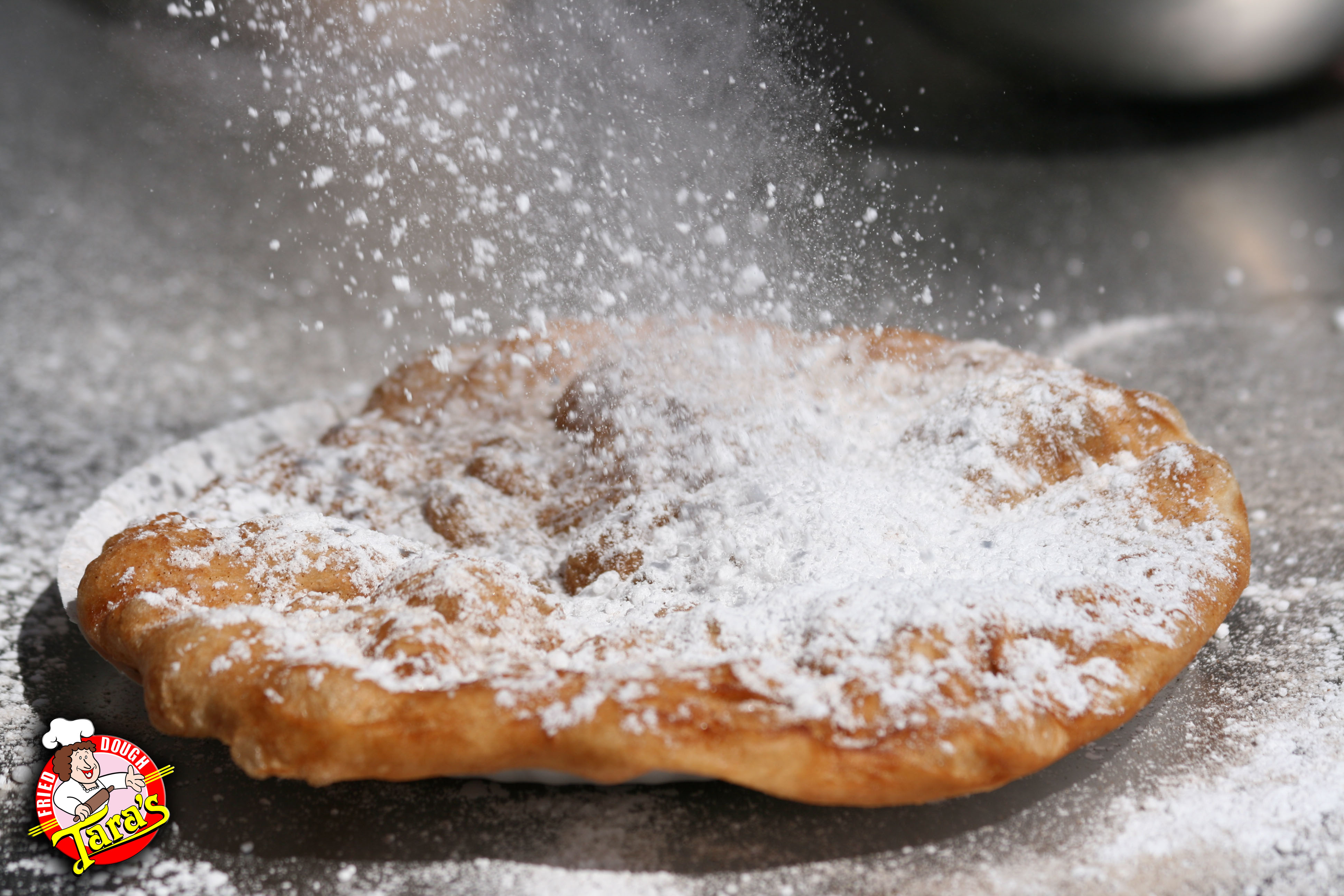 Fried Dough Powdered Sugar Tara's Fried Dough . Fried Dough at its best! A traditional fried dough, cirucular in shape, being sprinkled with powdered sugar!